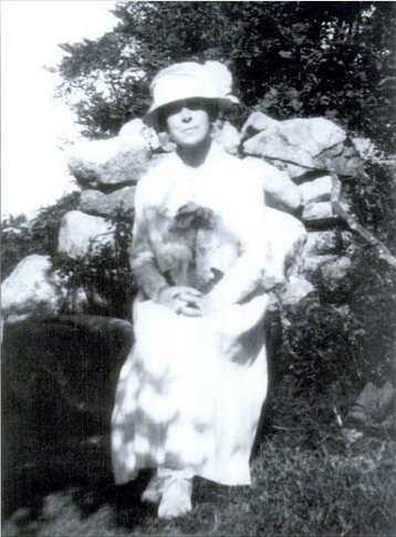 Mary Brewster Hazelton, est 1900–1910